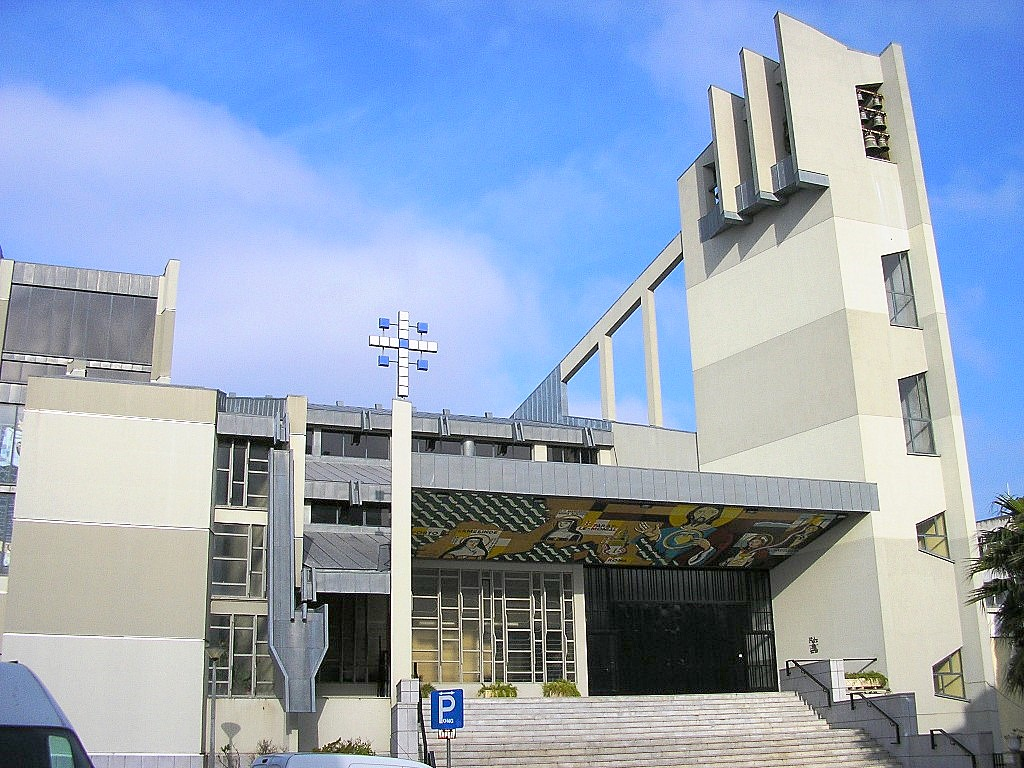 New "Carvalhido" church in Porto, Portugal.